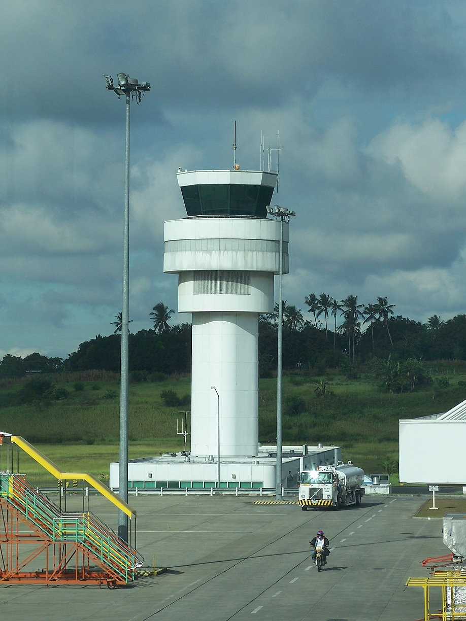 Tower of the Francisco Bangoy International Airport in Davao City, Philippines